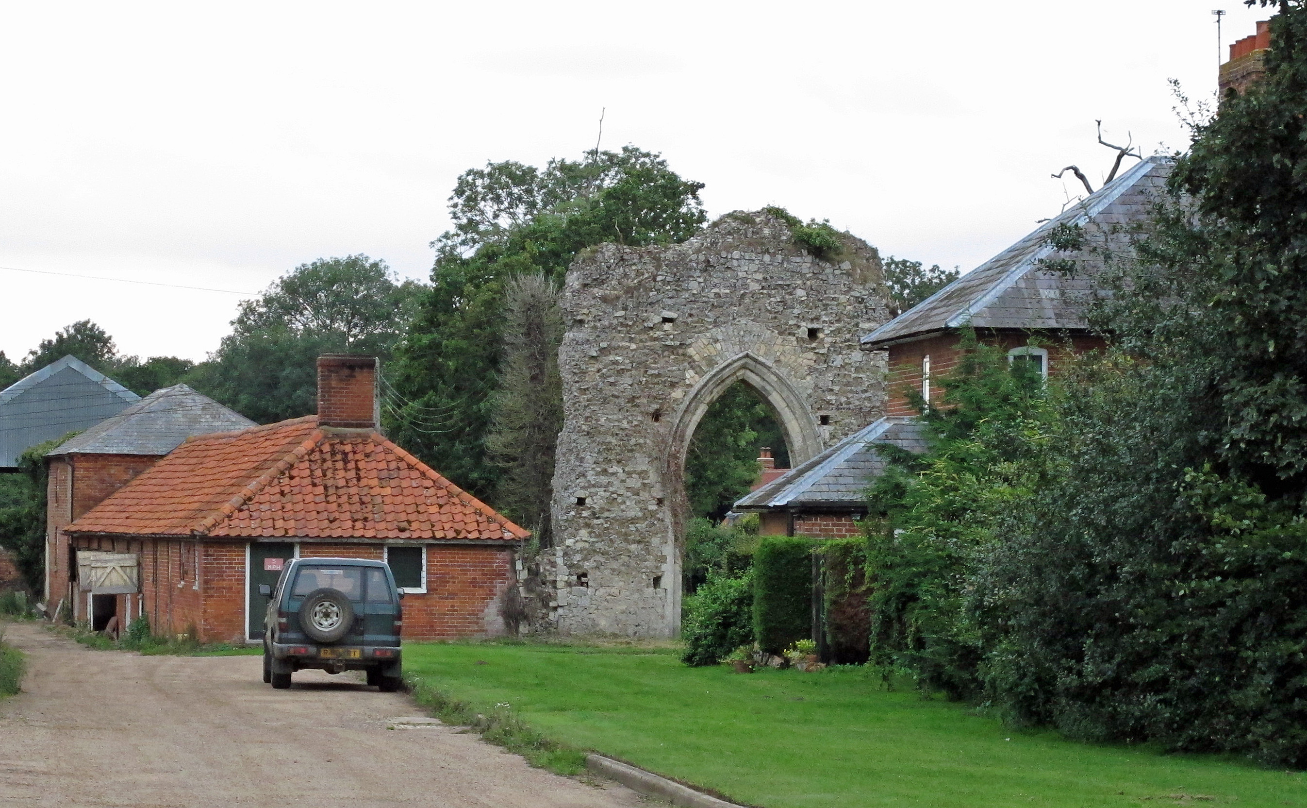 Remains of Butley Priory near Abbey Farm